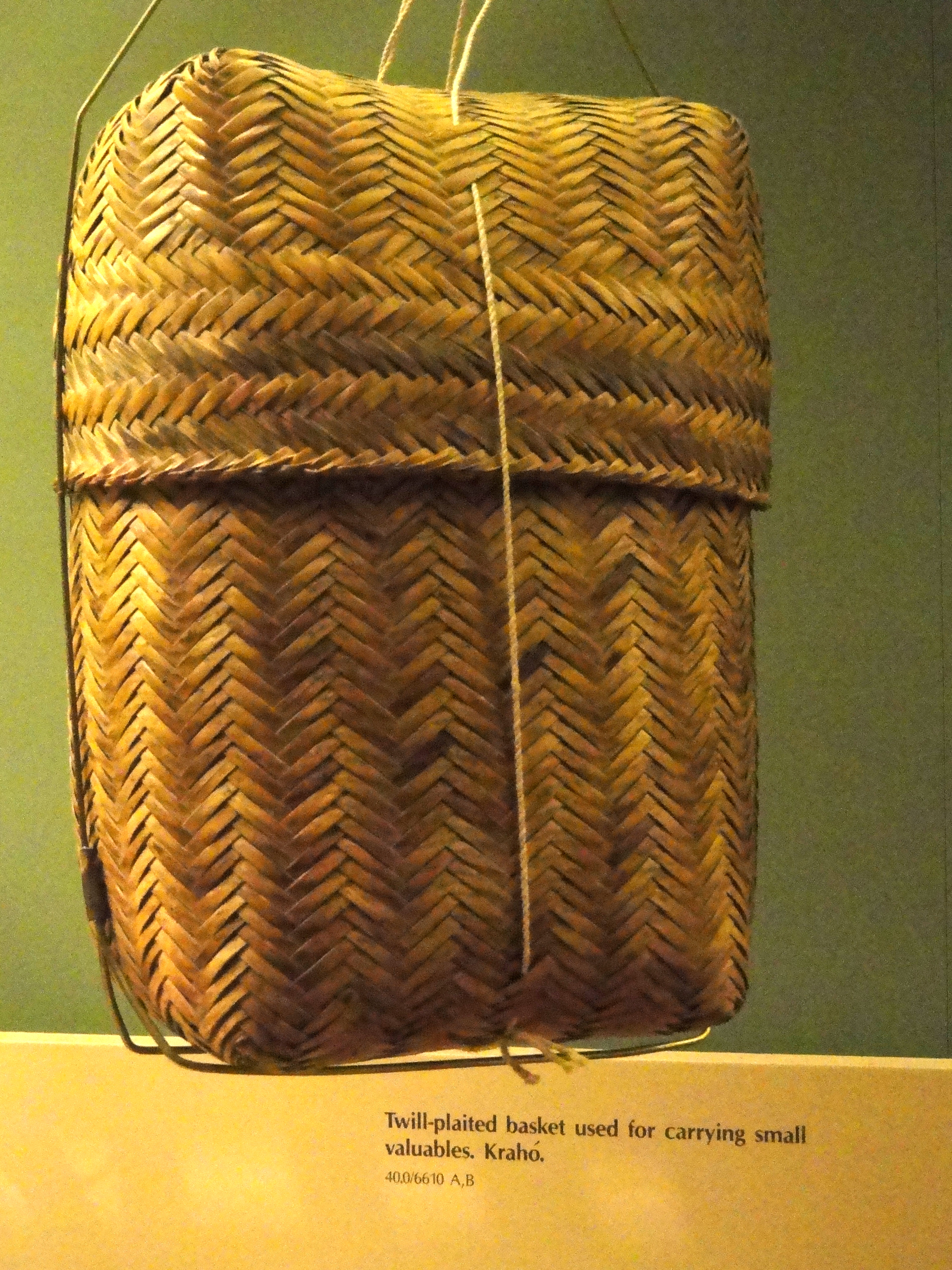 Exhibit in the South American collection of the American Museum of Natural History, Manhattan, New York City, New York, USA.